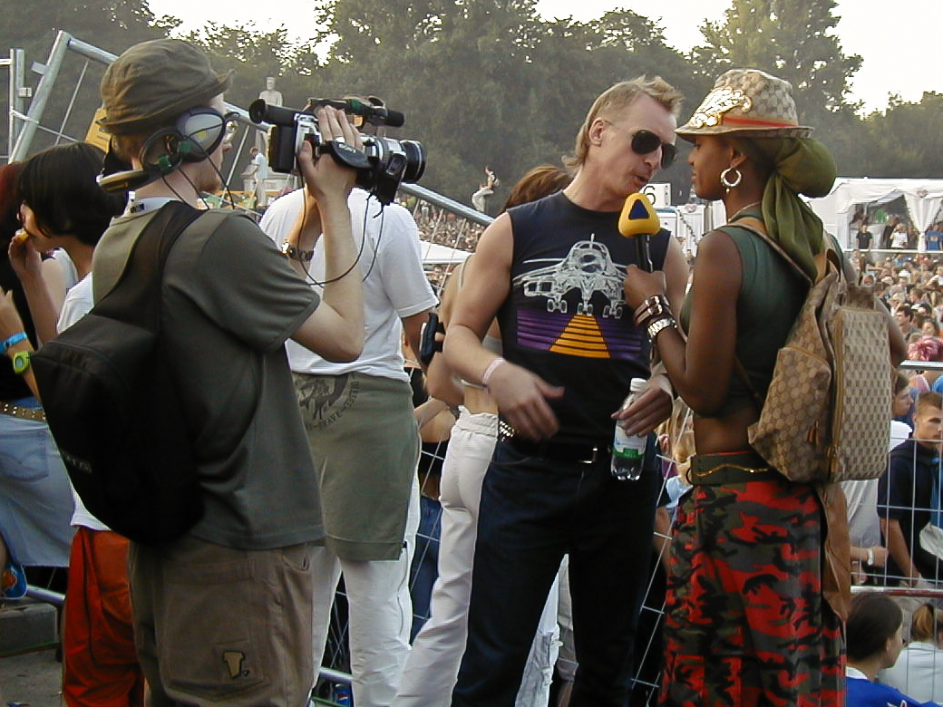 Loveparade 2001, Berlin, Germany